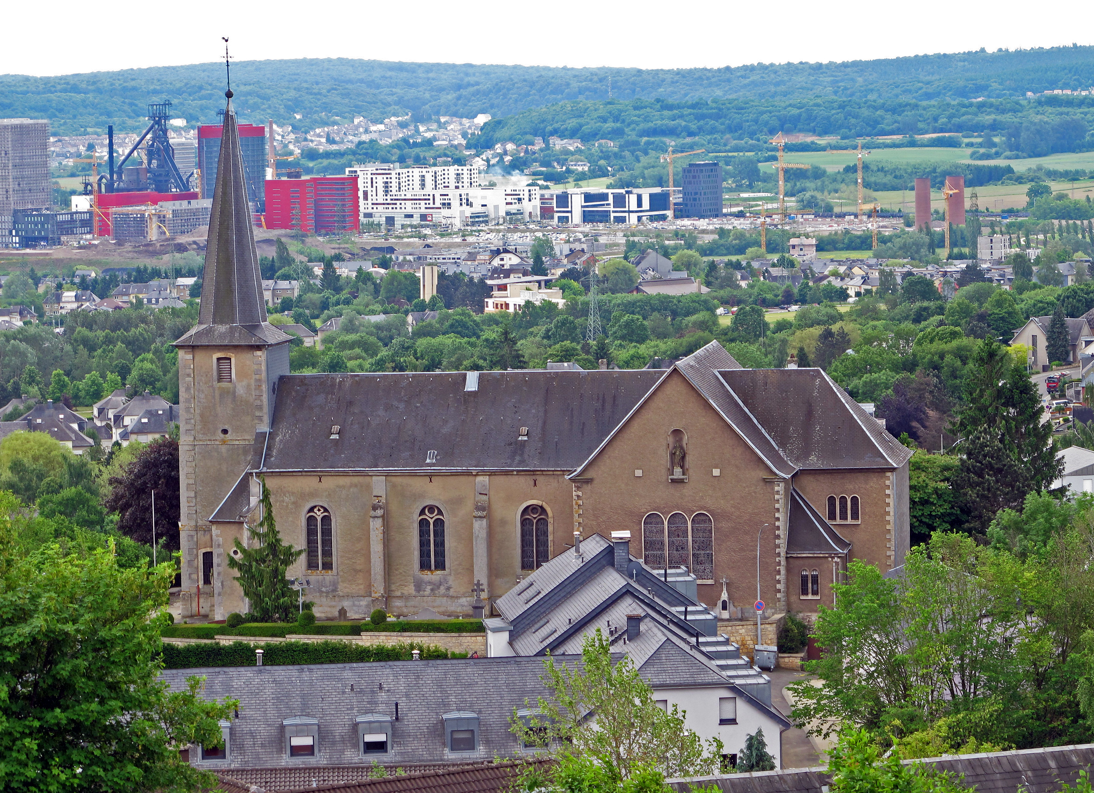 Church of Soleuvre, Luxembourg